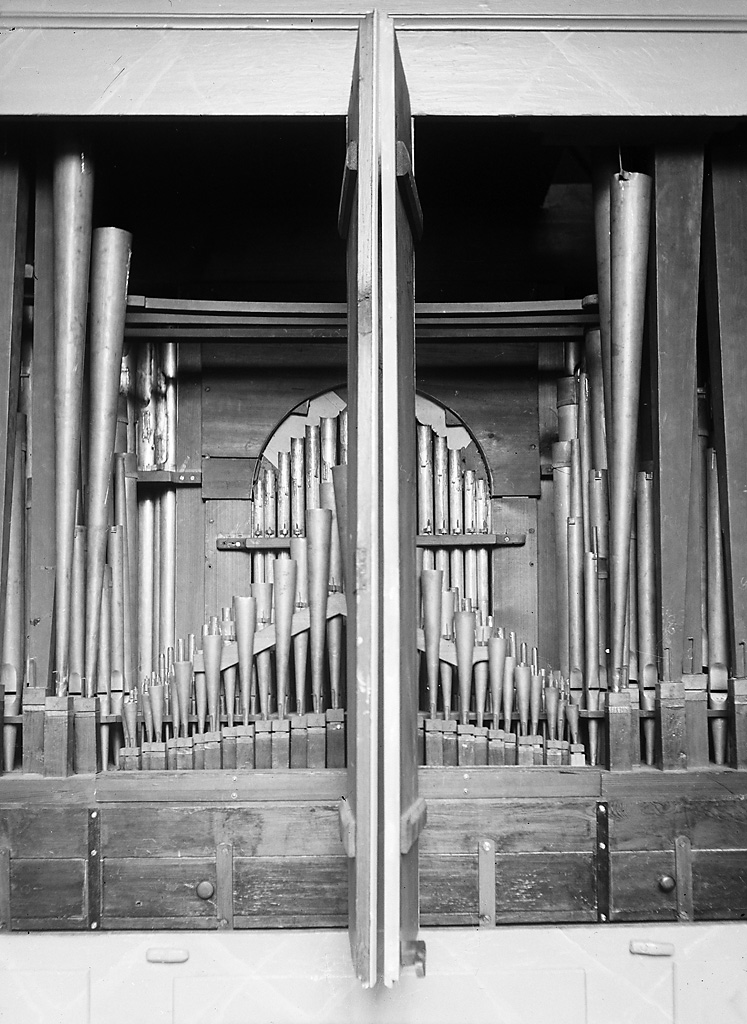 Organ pipes in Jonsered Church from 1860. The organ is built in the 1780s. Orgelpipor i Jonsereds kyrka från 1860. Orgeln är byggd på 1780-talet. Parish (socken): Partille Province (landskap): Västergötland Municipality (kommun): Partille County (län): Västra Götaland Photograph by: Einar Erici Date: c 1940 Format: Glass plate negative Persistent URL: Read more about the photo database (in english)